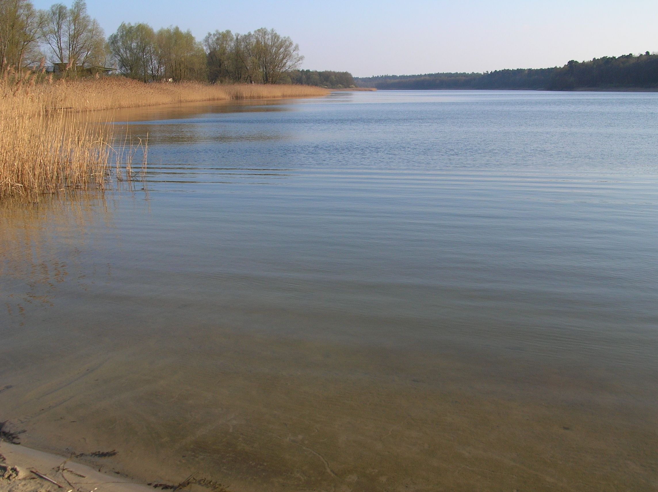 Ostrowskie Lake in the Ostrowo